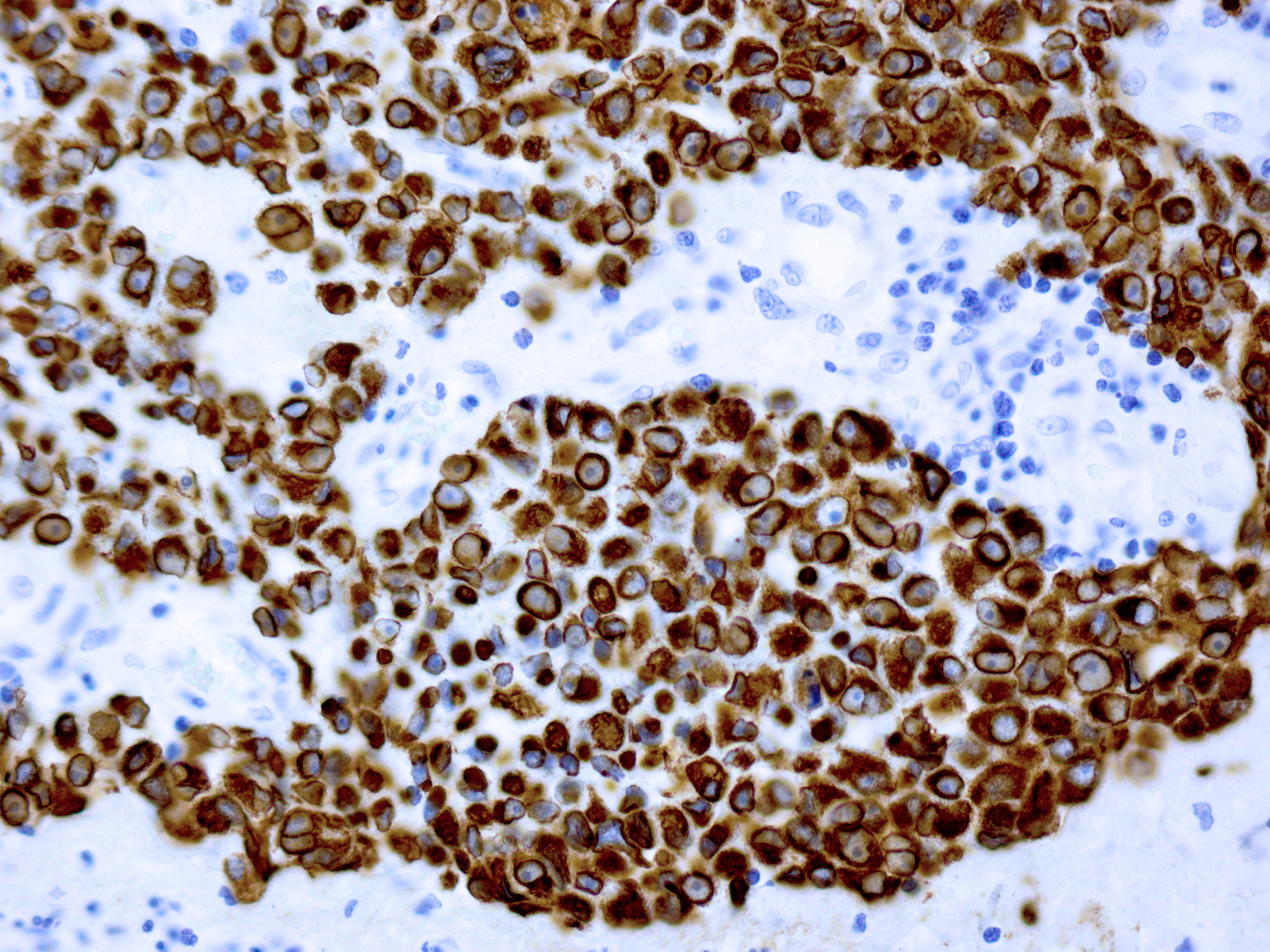 Ringlike perinuclear expression of cytokeratins in Crooke´s cell adenoma. Immunohistochemistry. 400x